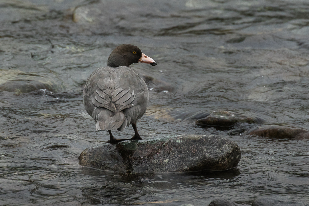 Blue Duck - New Zealand_FJ0A6081